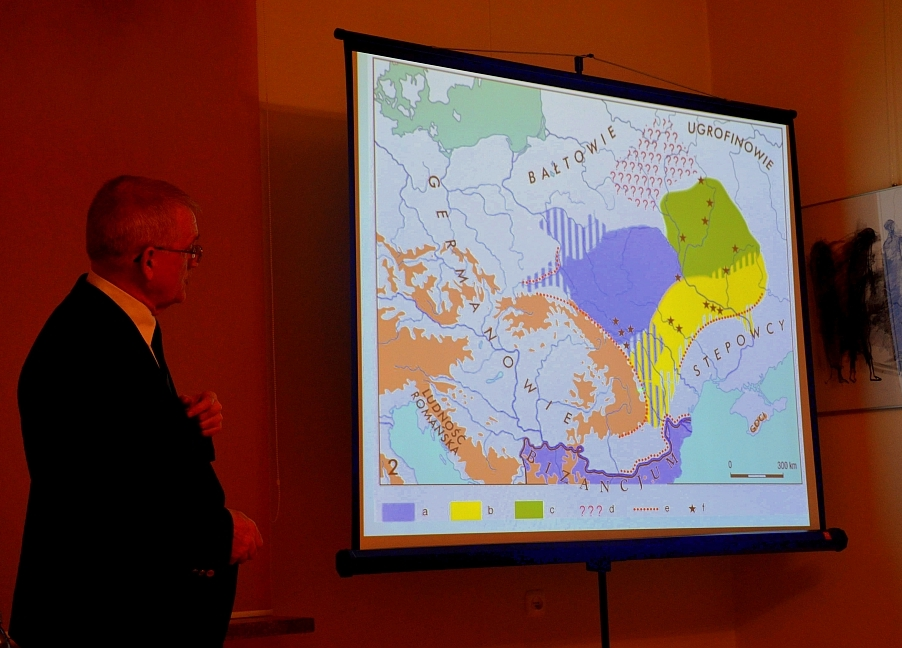 Michał Janusz Parczewski